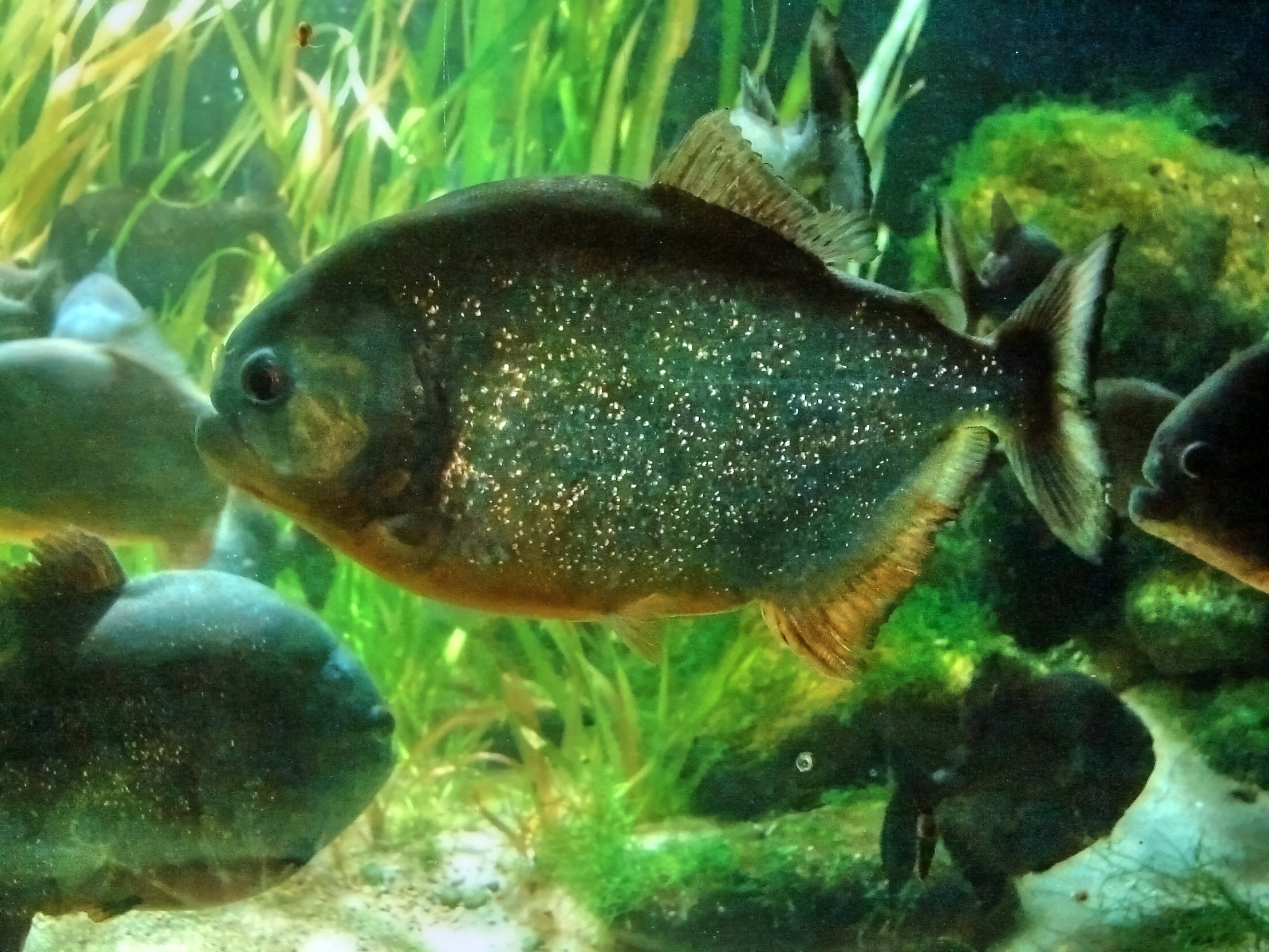 The fish Pygocentrus piraya often called the Piraya Piranha or San Francisco Piranha, and sometimes sold as the, Man Eating Piranha is a large, aggressive piranha from the São Francisco River basin in Brazil. Photographed at London Zoo. Location: NW1 4RY